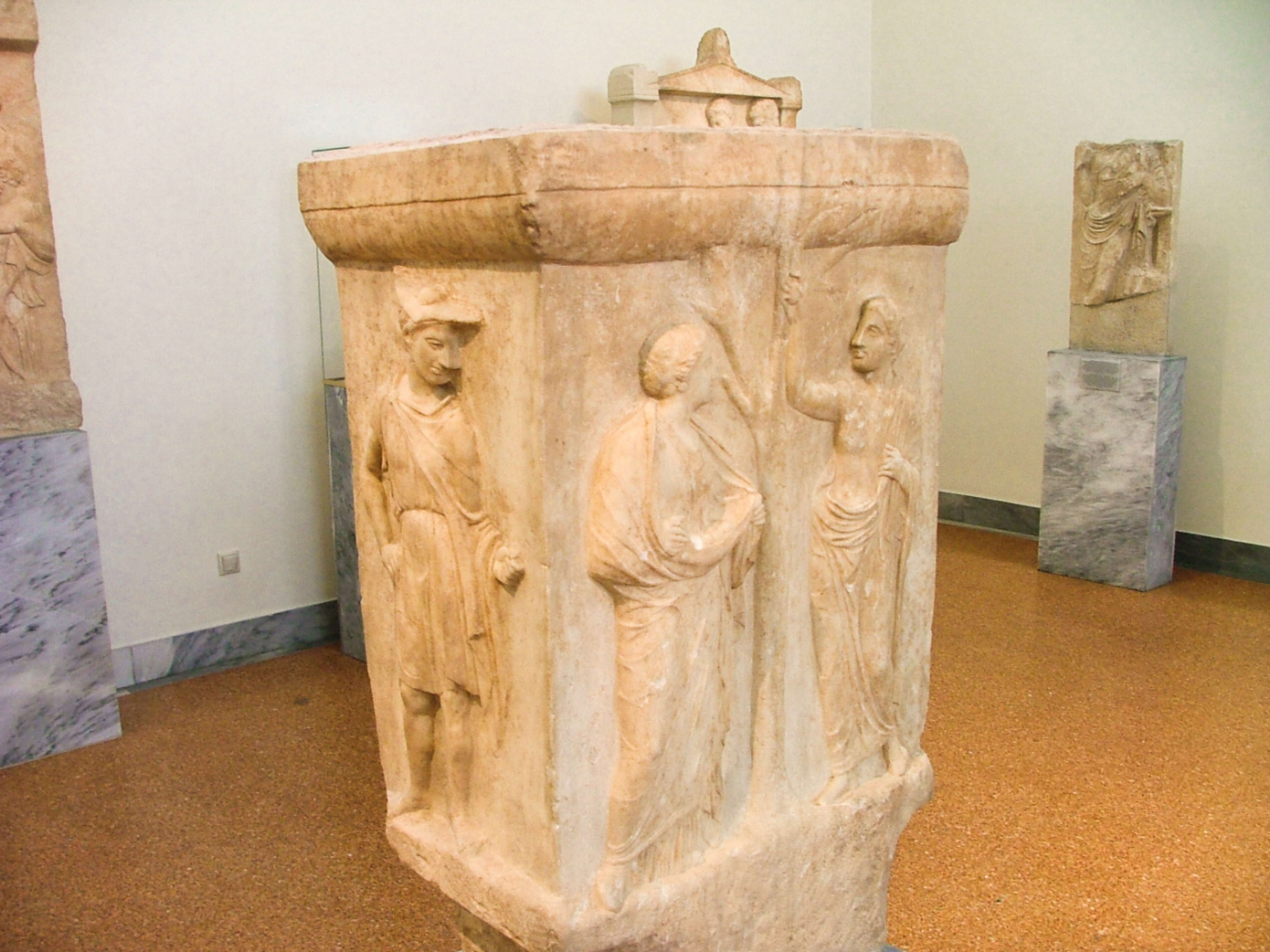 Base of a funerary marble vase. It is decorated in relief on its three visible sides. On the face a young woman and a youth pick apples from a tree. This unique allegoric theme apparently alludes of the afterlife in the Elysian Fields, where according the ancient tradition, the blessed dead enjoyed the golden fruits. The eschatologiccal character of this scene is completed with the presence of a priest holding a sacrificial knive on the right side of the base, and a youth wearing short chiton, chlamys and petasos on the left side of the base. The latter figure has been identified as Hermes Psychopompos (leader of souls), hs herald's staff would have been rendered in paint. The upper part of the base bears a circular opening for the fastening of a marble vase. The tenon at bottom was used for the insertion of the relief vase into a larger pedestal. Found in Athens, in Moschatto. 410-400 BC. National Archaeological Museum of Athens, Inv. No 4502.